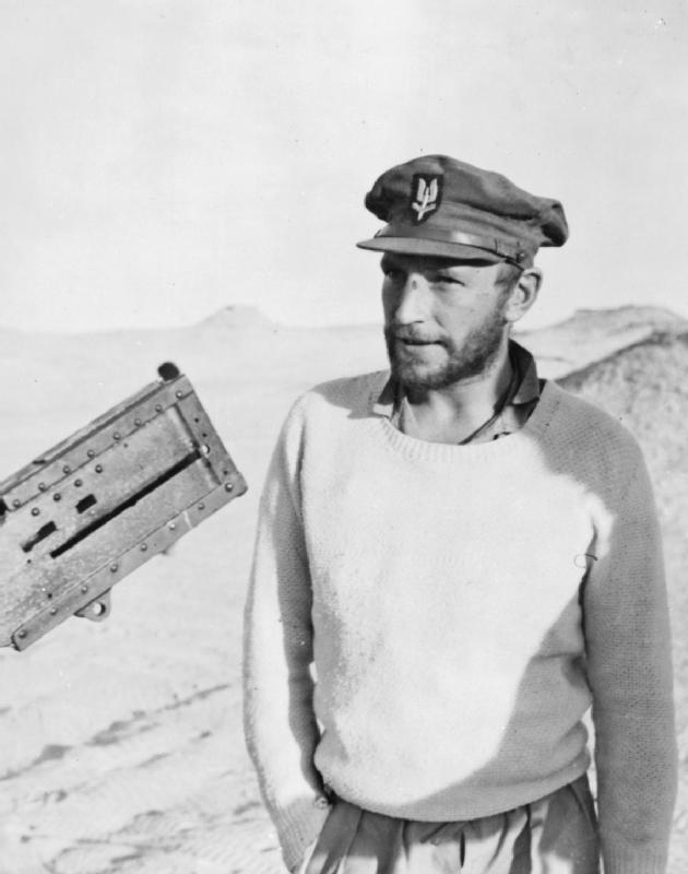 The Special Air Service during the Second World War Portrait of Lt Col Robert Blair 'Paddy' Mayne, SAS, in the desert near Kabrit, 1942.